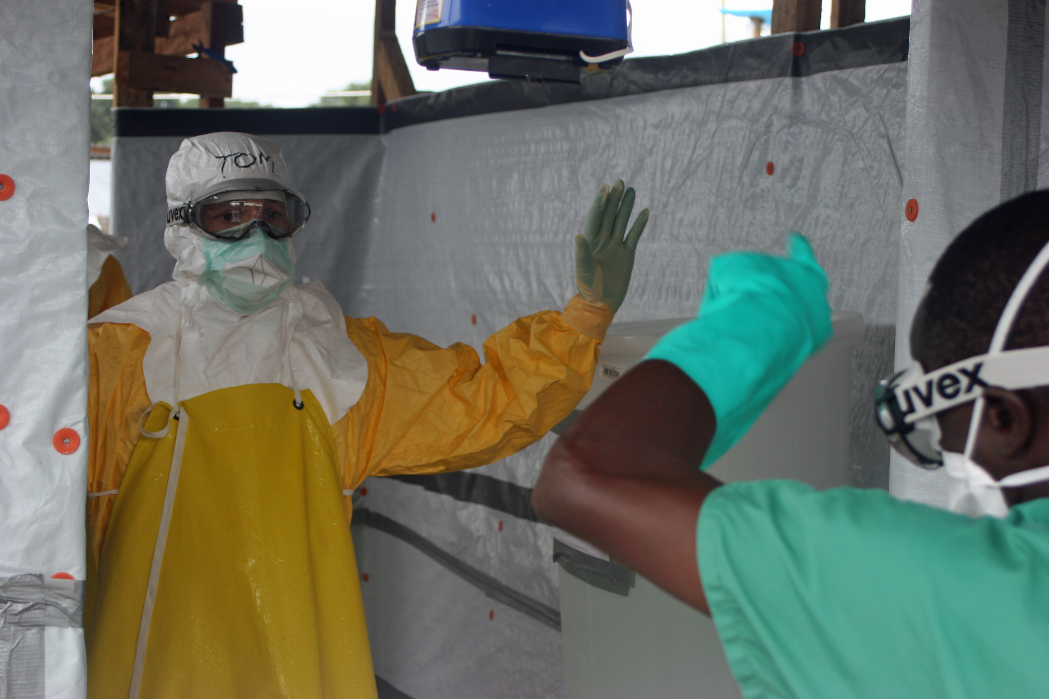 Dr. Tom Frieden, Director of the U.S. Centers for Disease Control and Prevention, is decontaminated by Médecins Sans Frontières/Doctors Without Borders staff after visiting their Ebola treatment unit, ELWA 3. Photographer: Athalia Christie For more information on Ebola and what CDC is doing, please visit